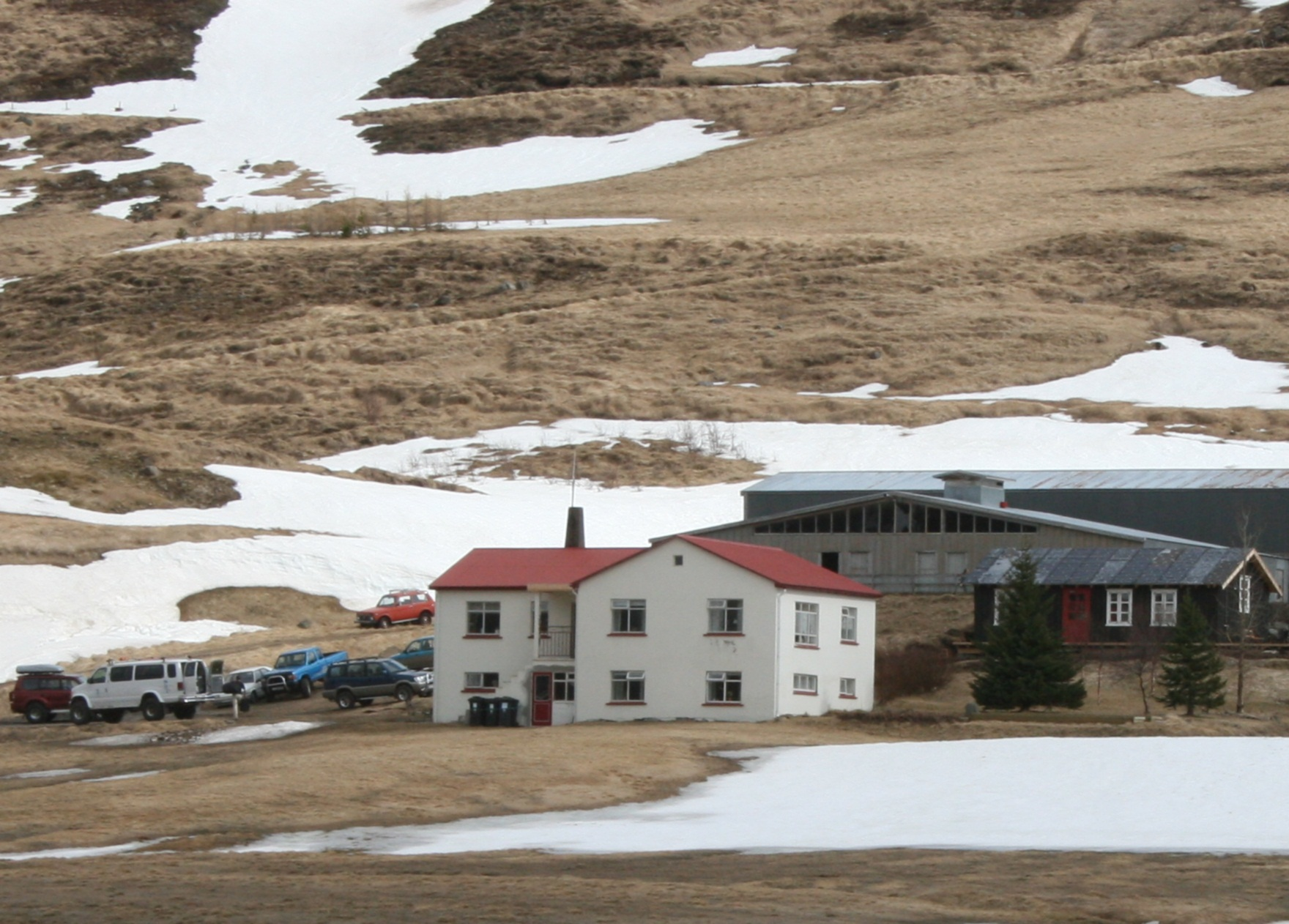 Klaengsholl, a farm in Skíðadalurdalur, North Iceland